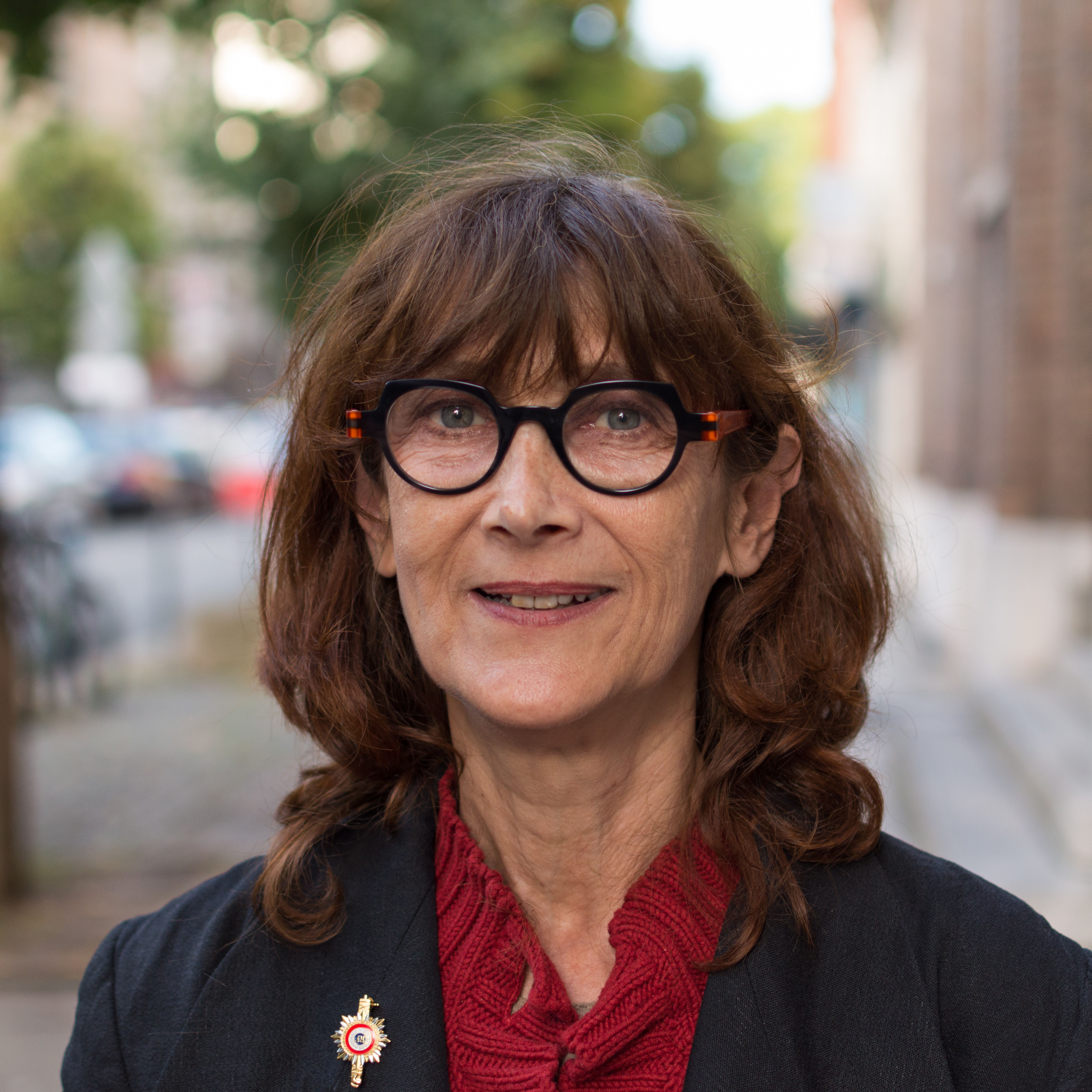 Depicted person: Sabine Rubin – French politician